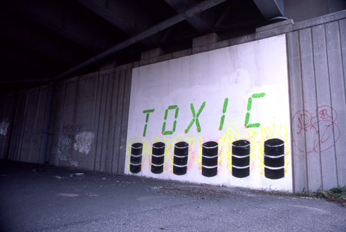 Toxic, Long Island Expressway, Queens, NY. Estate of John Fekner © 2007 John Fekner